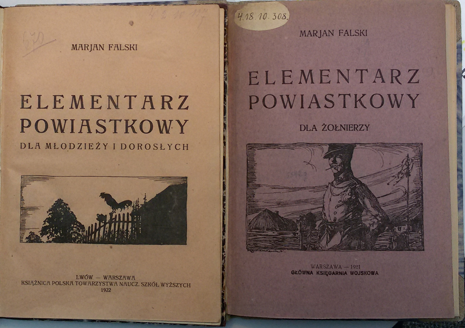 Cover pages of two variants of "Elementarz" by Marian Falski: for youth and adults (left) and for soldiers (right)